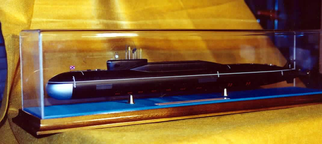 Scale model of the Yury Dolgoruky, the first Borei class submarine. The model represents the first version of the submarine.